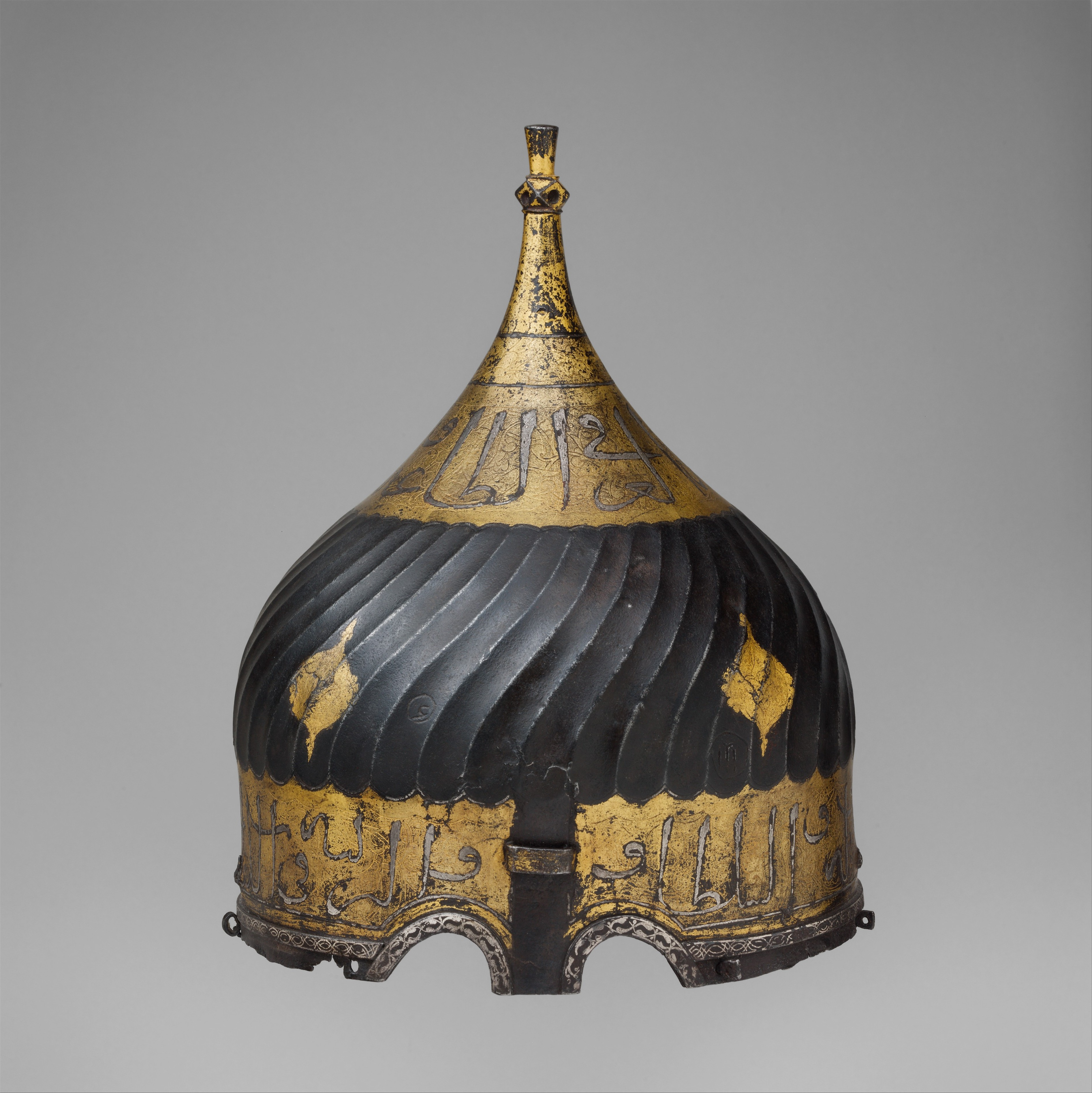 Turkish, possibly Istanbul, in the style of Turkman armor; Turban helmet; Helmets